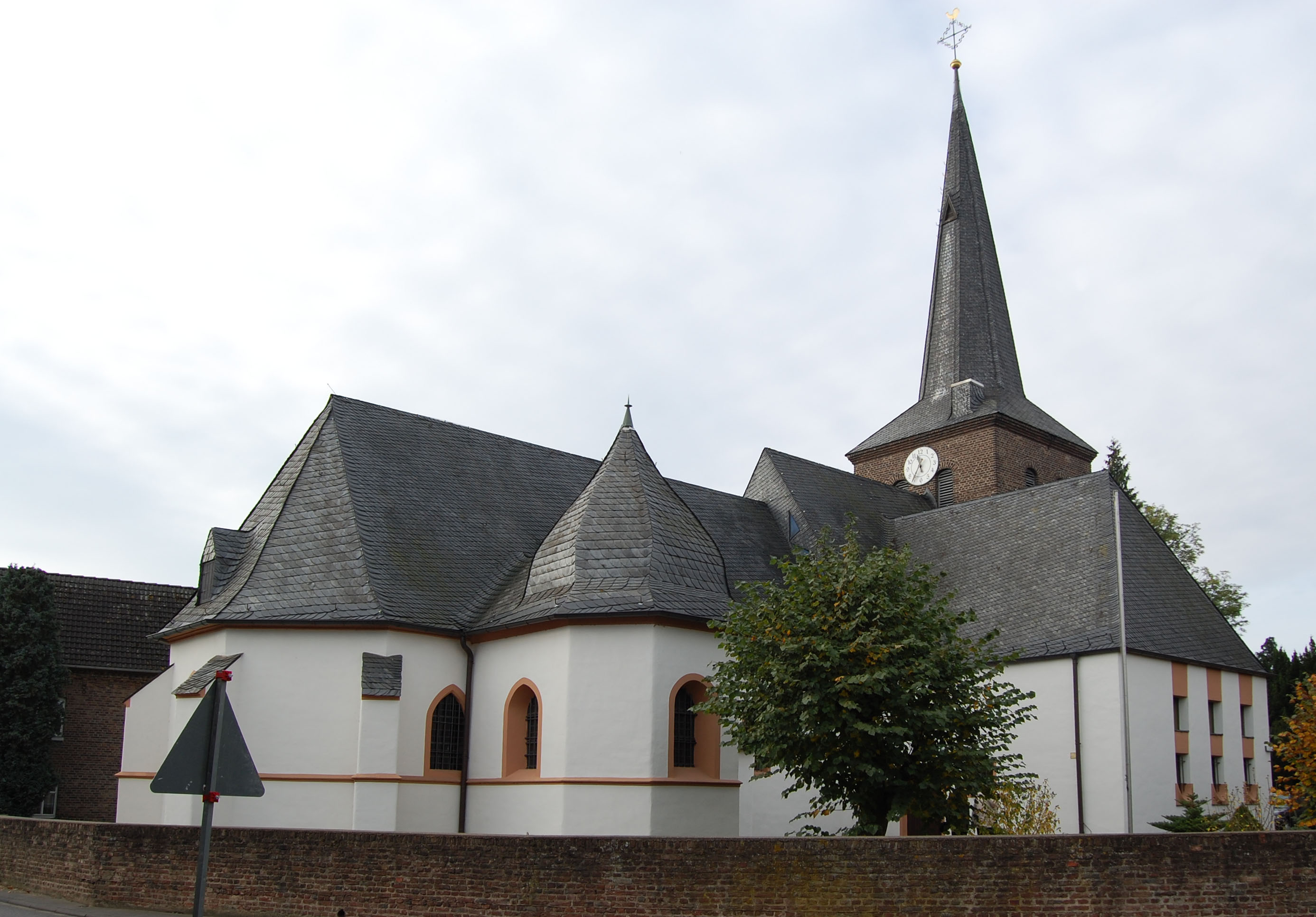 Picture from the village Dirmerzheim, Erftstadt, Germany